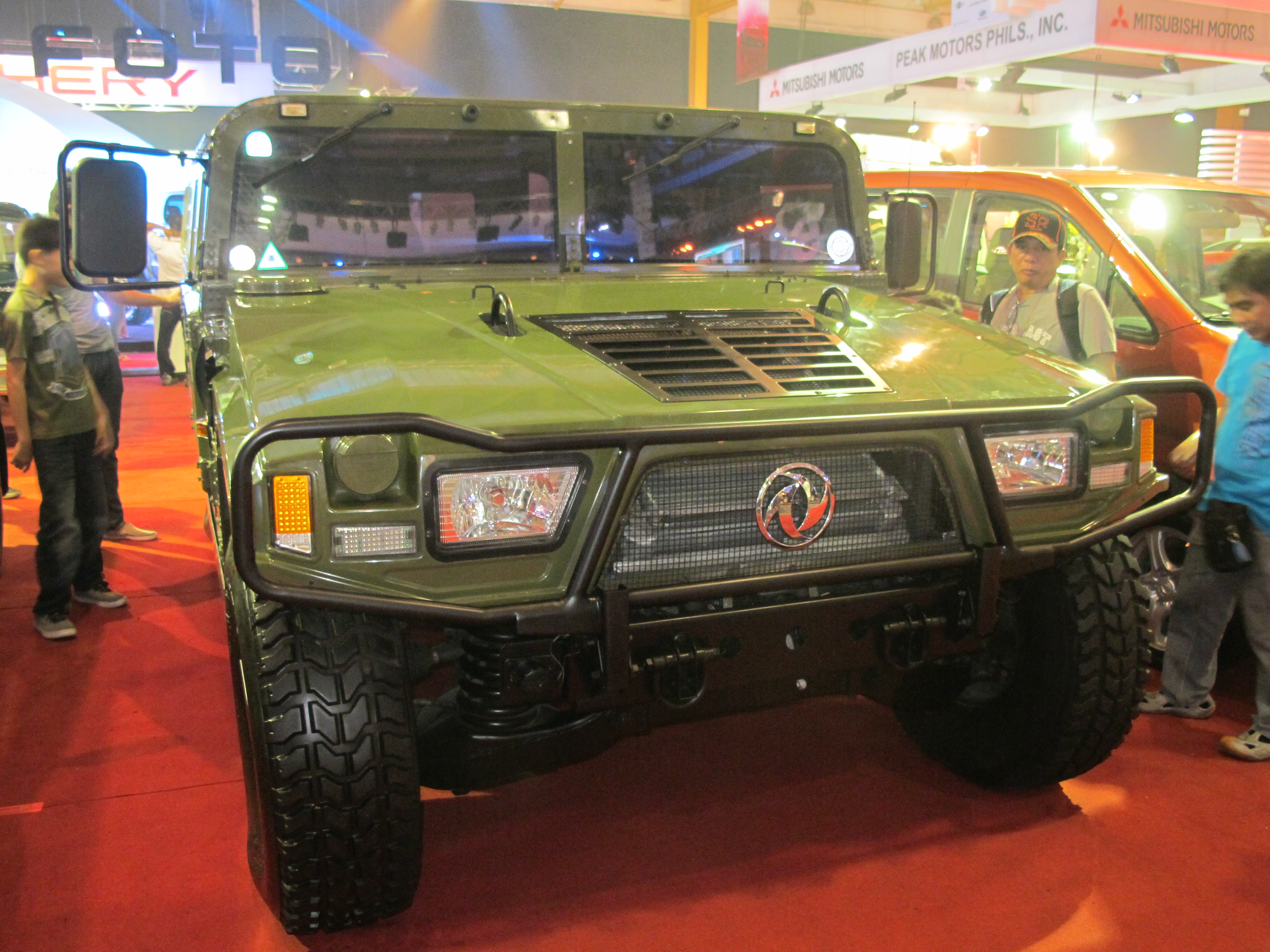 Chinese Humvee manufactured by Dong Feng displayed during the Manila International Auto Show 2013.